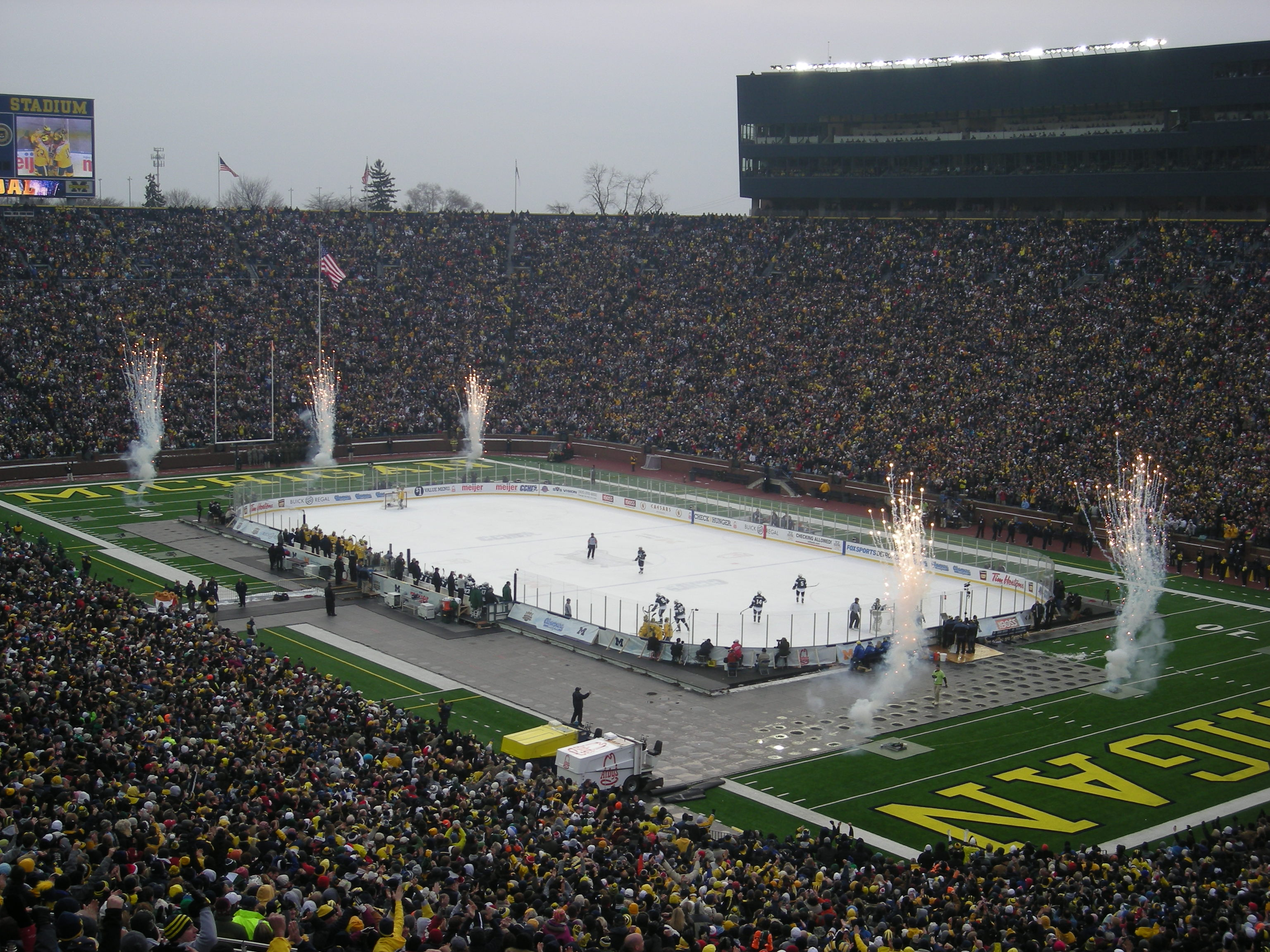 Michigan scores during the Michigan State Spartans vs. Michigan Wolverines men's ice hockey game at Michigan Stadium in Ann Arbor, Michigan (United States). Michigan won 5–0.